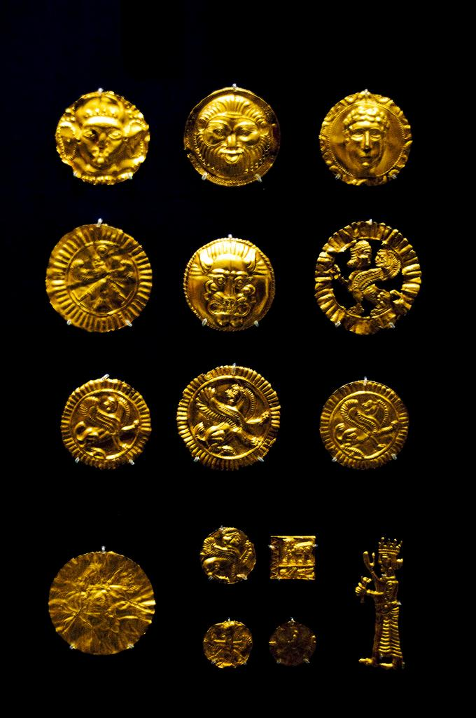 Achaemenid period gold artifacts, perhaps medallions or religious objects, from the Oxus Treasure (6th to 4th century BC). Found at Amu-Darja (Tadjikistan), currently located in the British Museum.